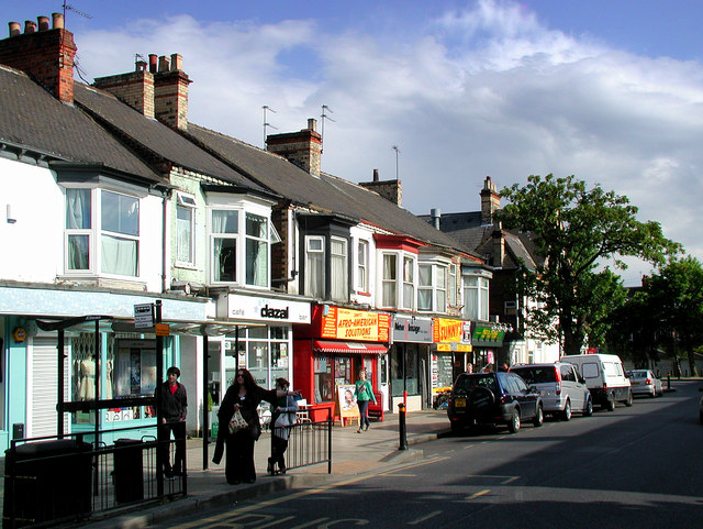 Newland Avenue, Hull Shops near the southern end of Newland Avenue on the east side, looking south-southeast from the corner of Ella Street.